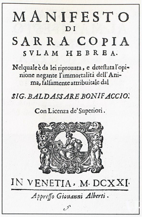 Front page of Sara Copia Sullam' Manifesto di Sarra Copia Sulam hebrea Nel quale è da lei riprovate, e detestata l’opinione negante l’Immortalità dell’Anima, falsemente attribuitale da SIG. BALDASSARE BONIFACIO .